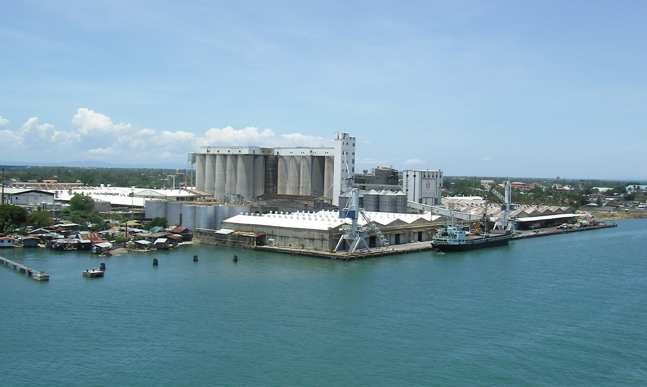 Mactan, Philippines Description: Harbour area of Mactan, close to Cebu City Author:Peter Binter Date: April 30th 2006